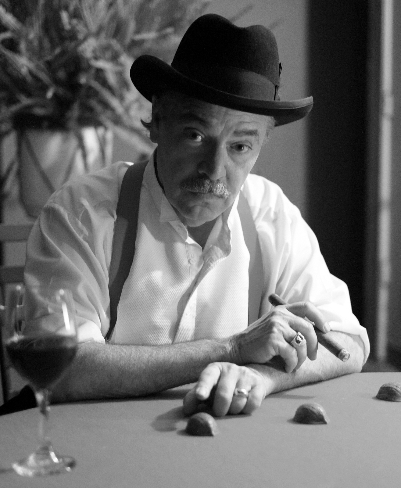 Pop Haydn with the Shells and Pea Photo by Billy Baque